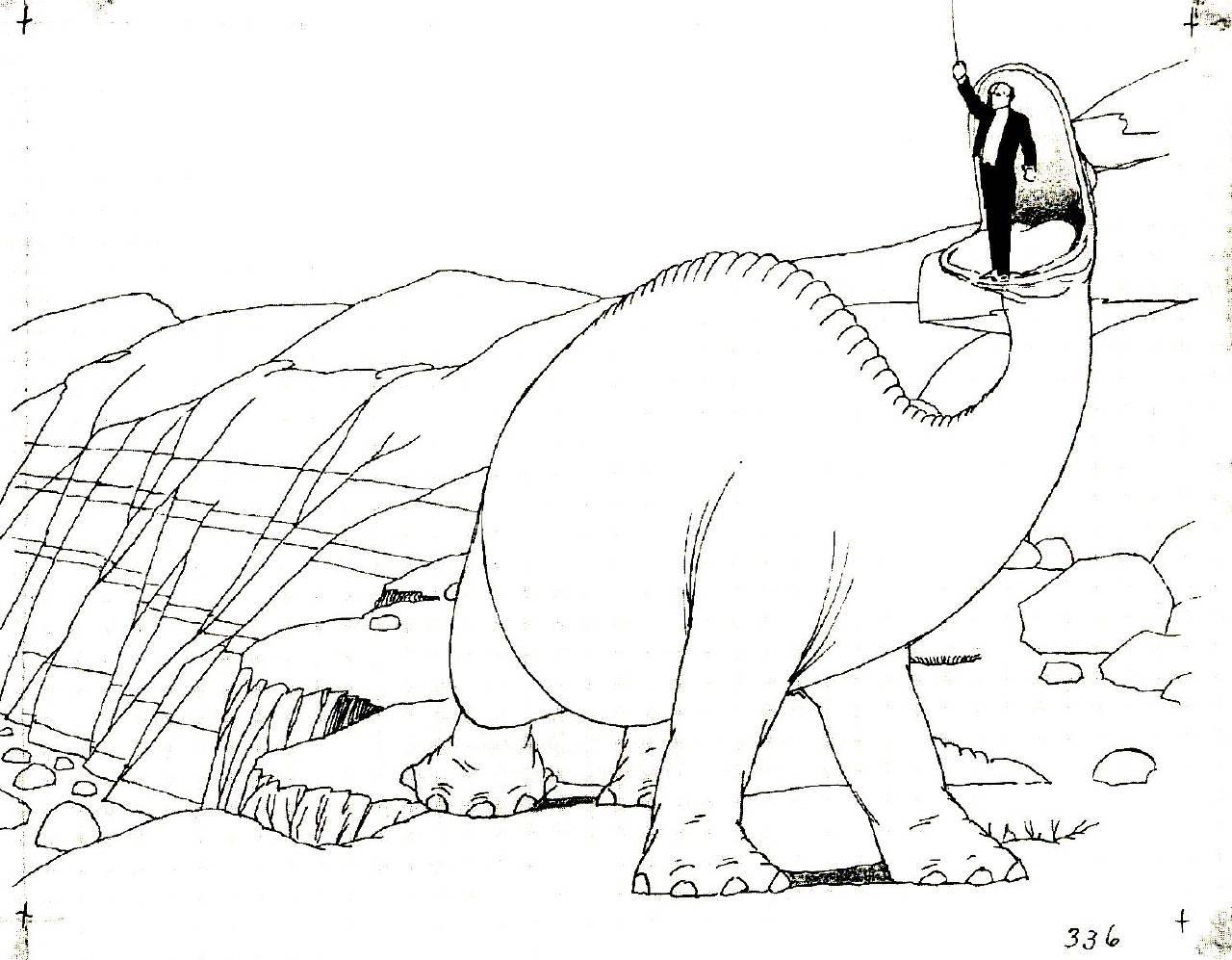 Gertie the Dinosaur carrying animated version of Winsor McCay